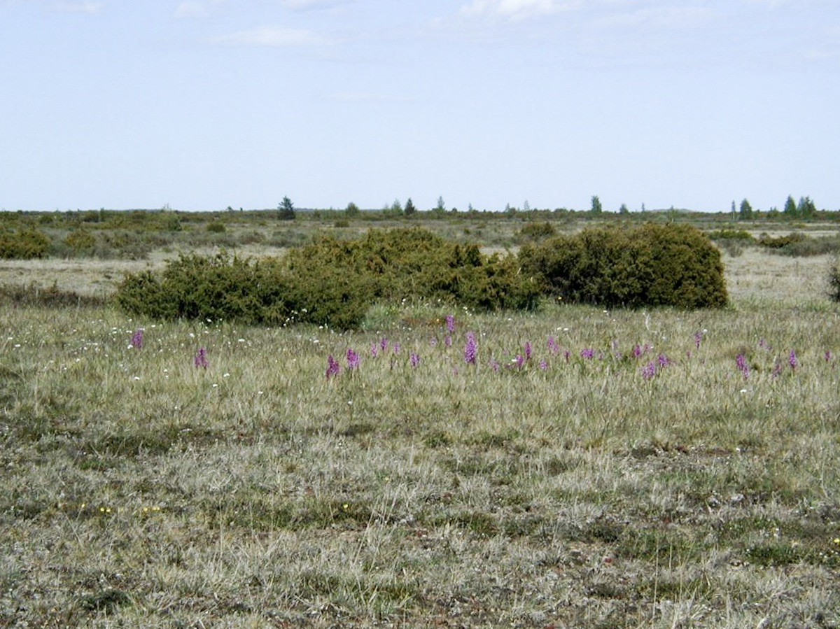 Steppe-landscape on the Swedish island of Öland: Alvaret.